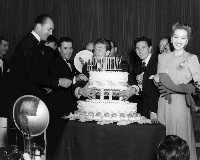 Photo of Red Skelton and John Garfield at Franklin D. Roosevelt's Birthday Ball in 1944. Skelton served as the master of ceremonies for FDR's official birthday celebration for many years. It's now time to cut the cake, but Red has decided to keep it all for himself.